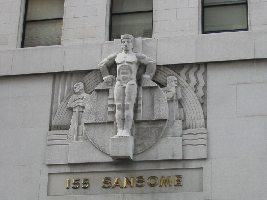 Ralph Stackpole's sculpture group over the door of the Stock Exchange Tower at 155 Sansome in San Francisco, California